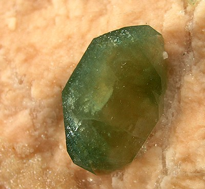 Apatite-(CaF) Locality: Sapo mine, Conselheiro Pena, Doce valley, Minas Gerais, Southeast Region, Brazil (Locality at ) Size: large cabinet, 29.3 x 17.1 x 5.8 cm carbonate-FLUORAPATITE on Feldspar This is one of the largest half dozen specimens in the find, as reported to me. It consists of a heavy plate of feldspar on which sit over a dozen 3-4 cm crystals. It is so big, that it is really har dto photograph accurately but suffice to say the crystals are of the quality seen in the closeup. All are intact, save only one broken crysatl in the left-center of the specimen (and in any case, it should probably be trimmed to remove that third of the piece, leaving a more elegant if smaller result). This piece was priced at 5000 EUROS at the show, at its origianl retail price...just to give you a feel for how the best there were priced and how i have amortised and reduced prices on many larger pieces, as i got a good deal on buying out the lot of them.